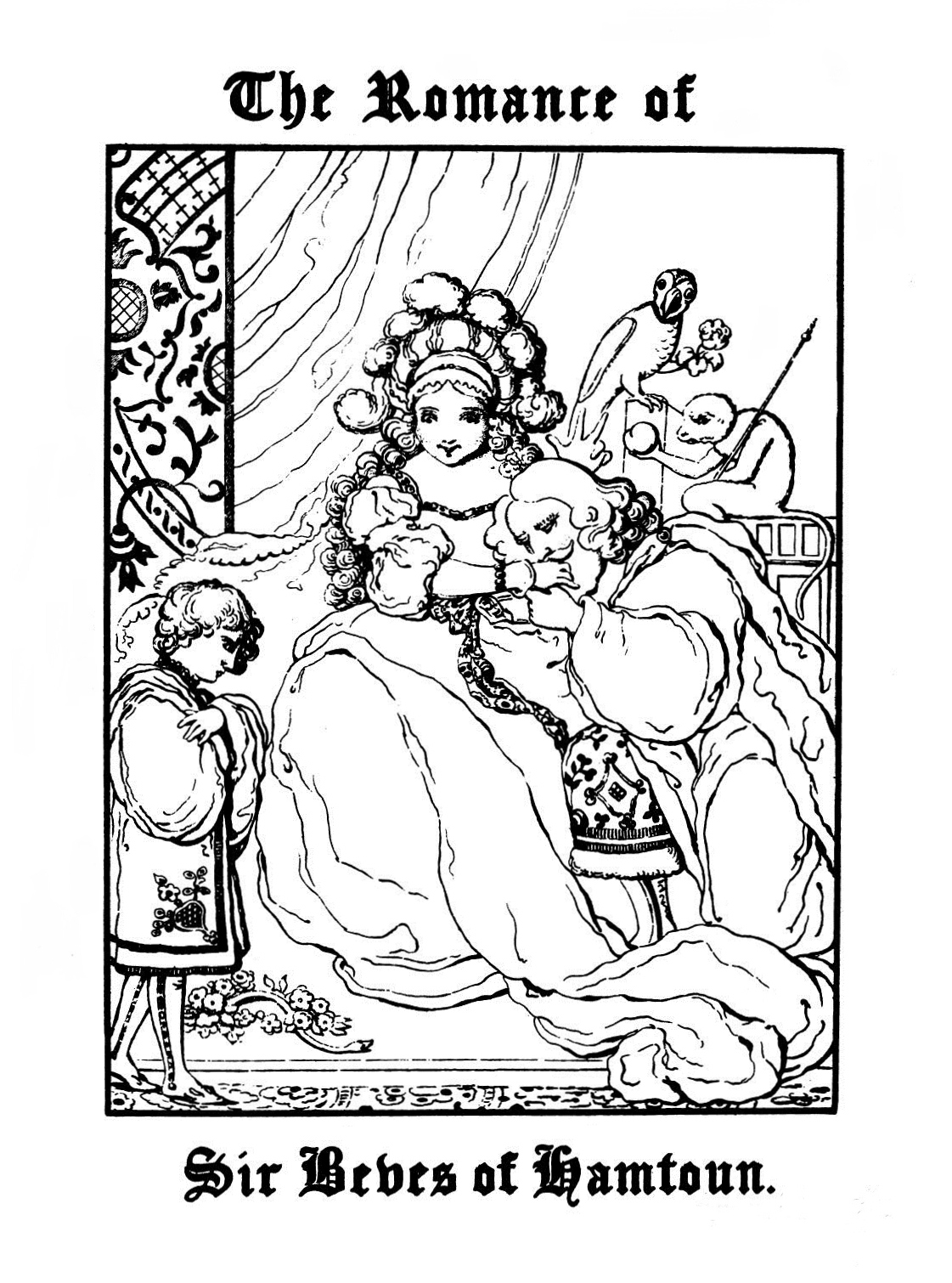 Beves of Hamtoun 1838 title page